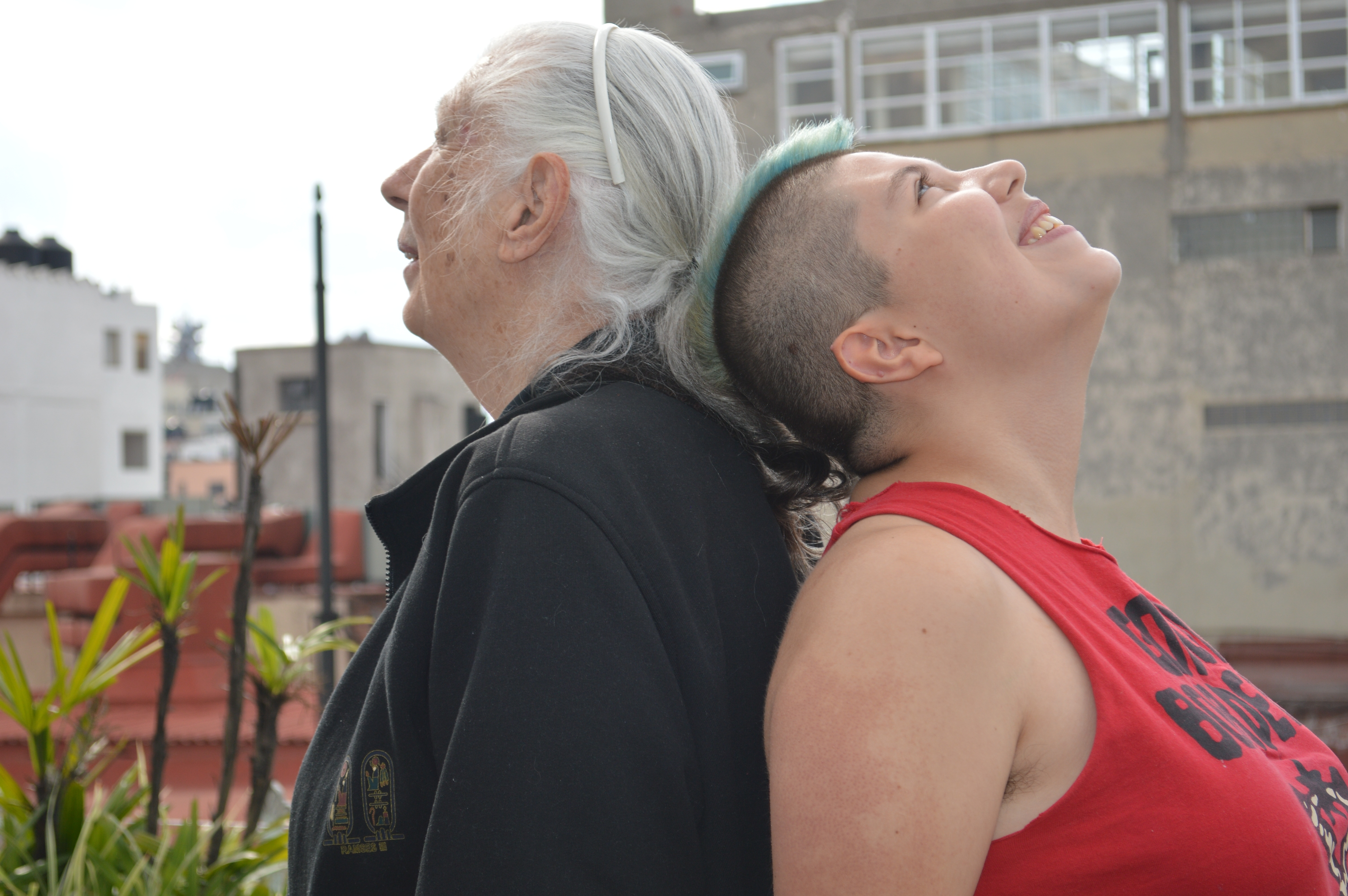 Chappie Angulo and Angulo's granddaughter at the presentation of the book "Mujeres del Salón de la Plastica Mexicana" vol 1 at the Museo del Estanquillo, Mexico City